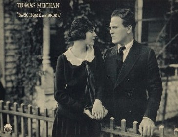 Lila Lee and Thomas Meighan in Back Home and Broke (1922) - cropped lobby card (original image : see source)